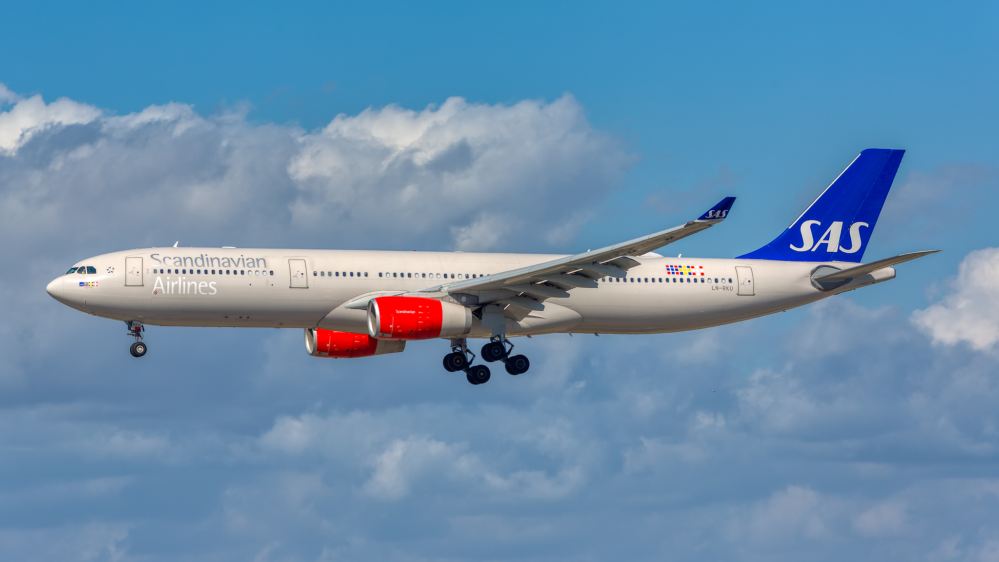 02222017_Scandinavian Airlines_A330_LN-RKU_KLAX_NASEDIT